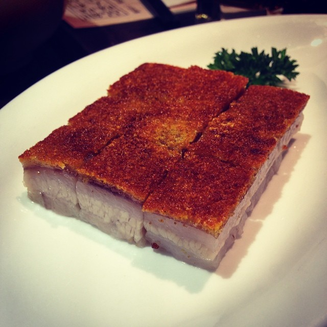 Cantonese Roasted Pork Belly